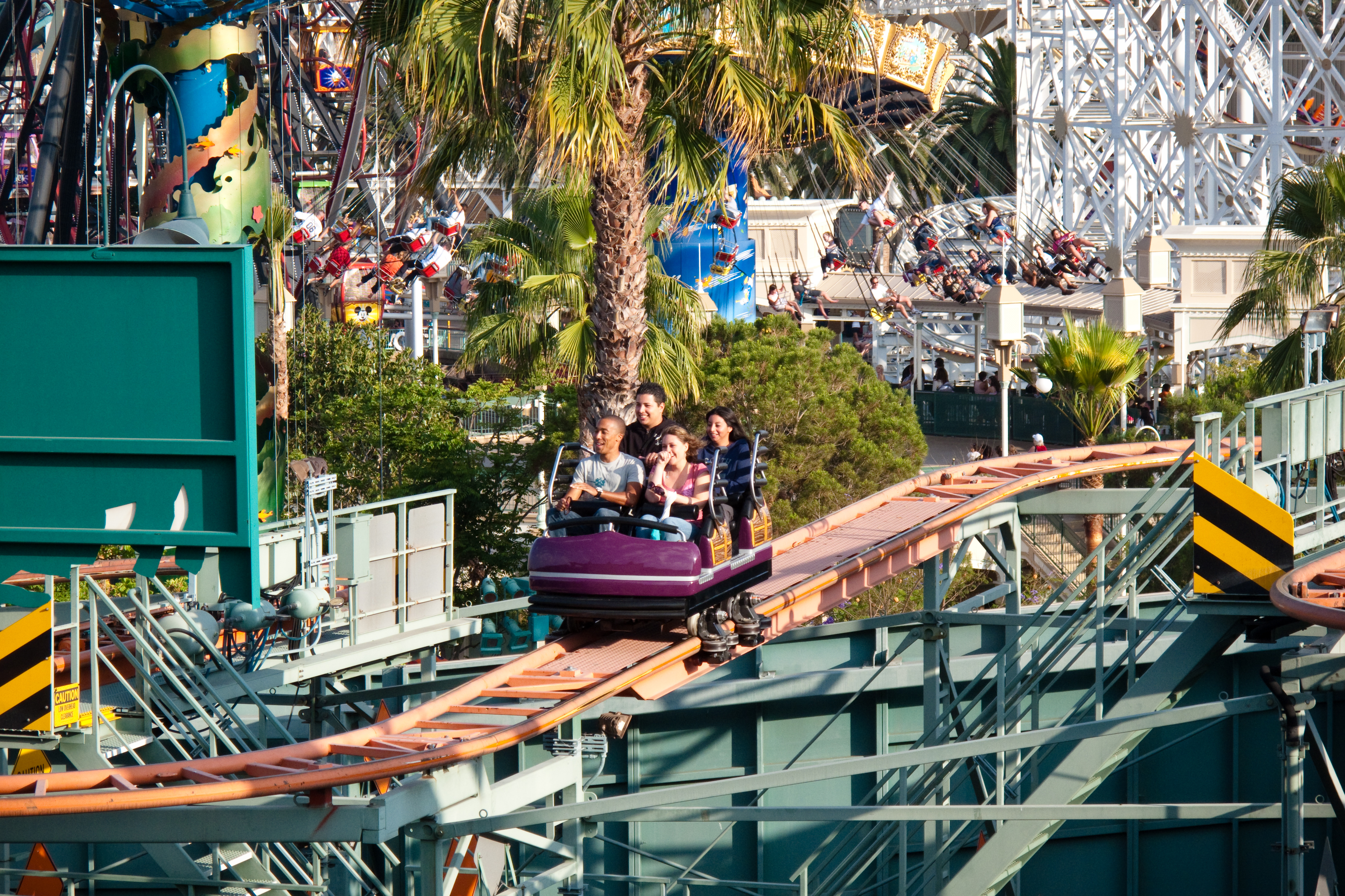 A view from our room of folks riding Mulholland Madness at California Adventure.